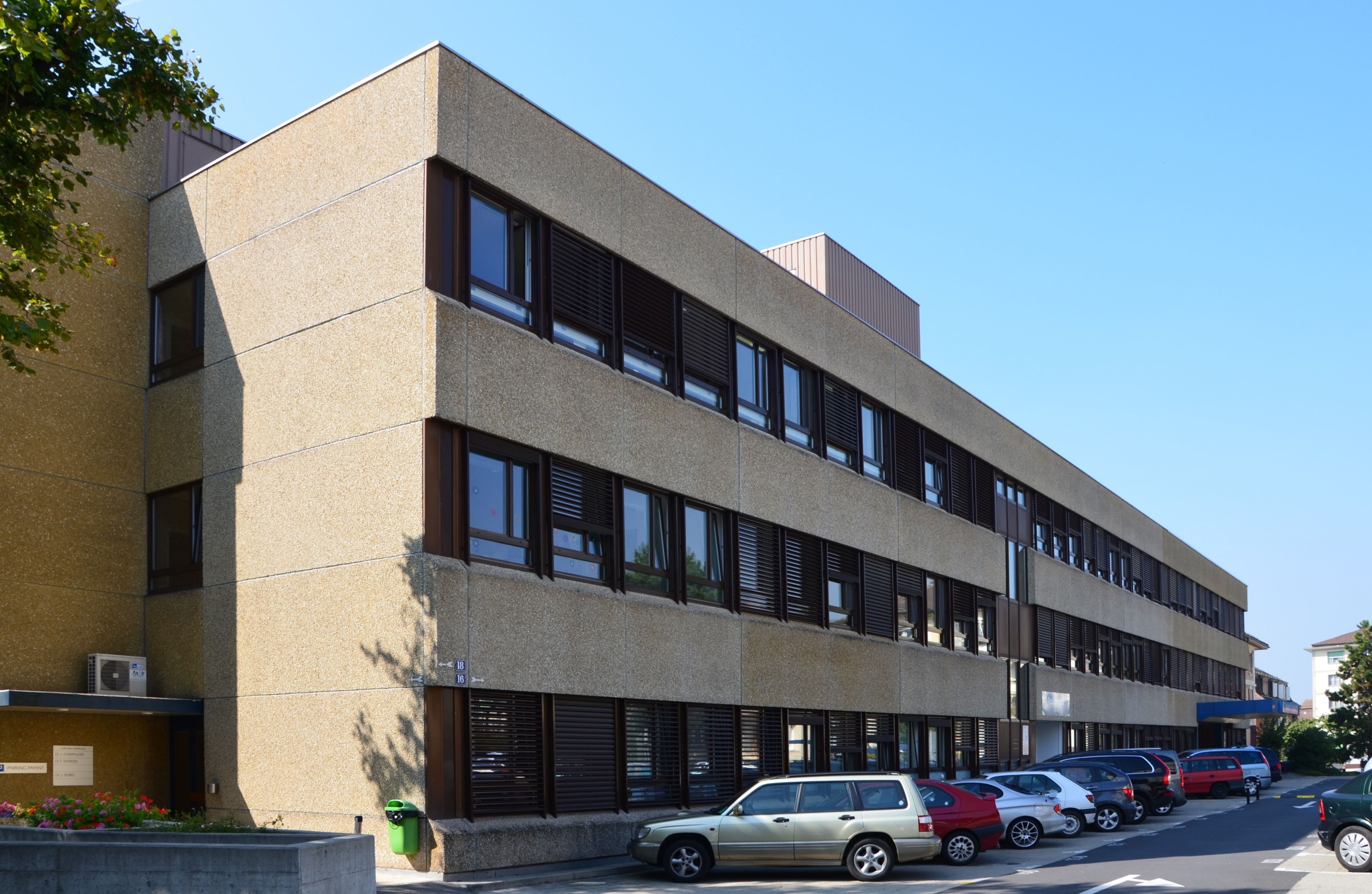 The Children Hospital of Lausanne (Switzerland).